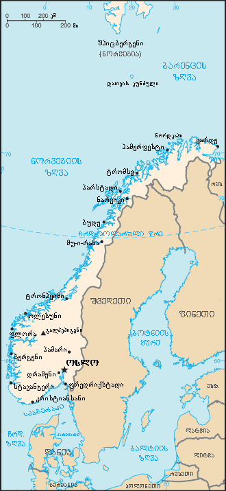 Map of Norway with countries south of Norway, Svalbard and Bjørnøya.